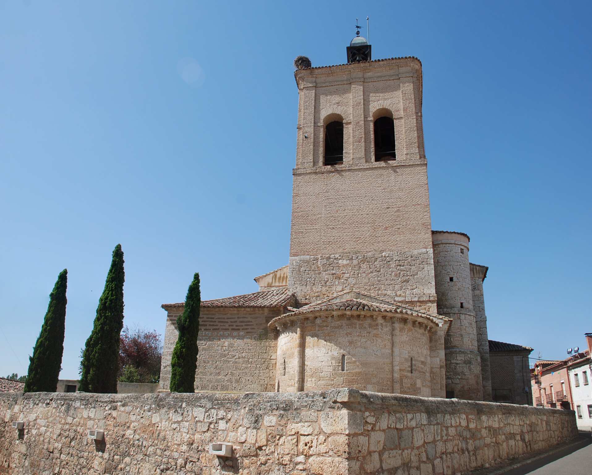 Church of Saint Mamés in Magaz de Pisuerga (Palencia, Castile and León).